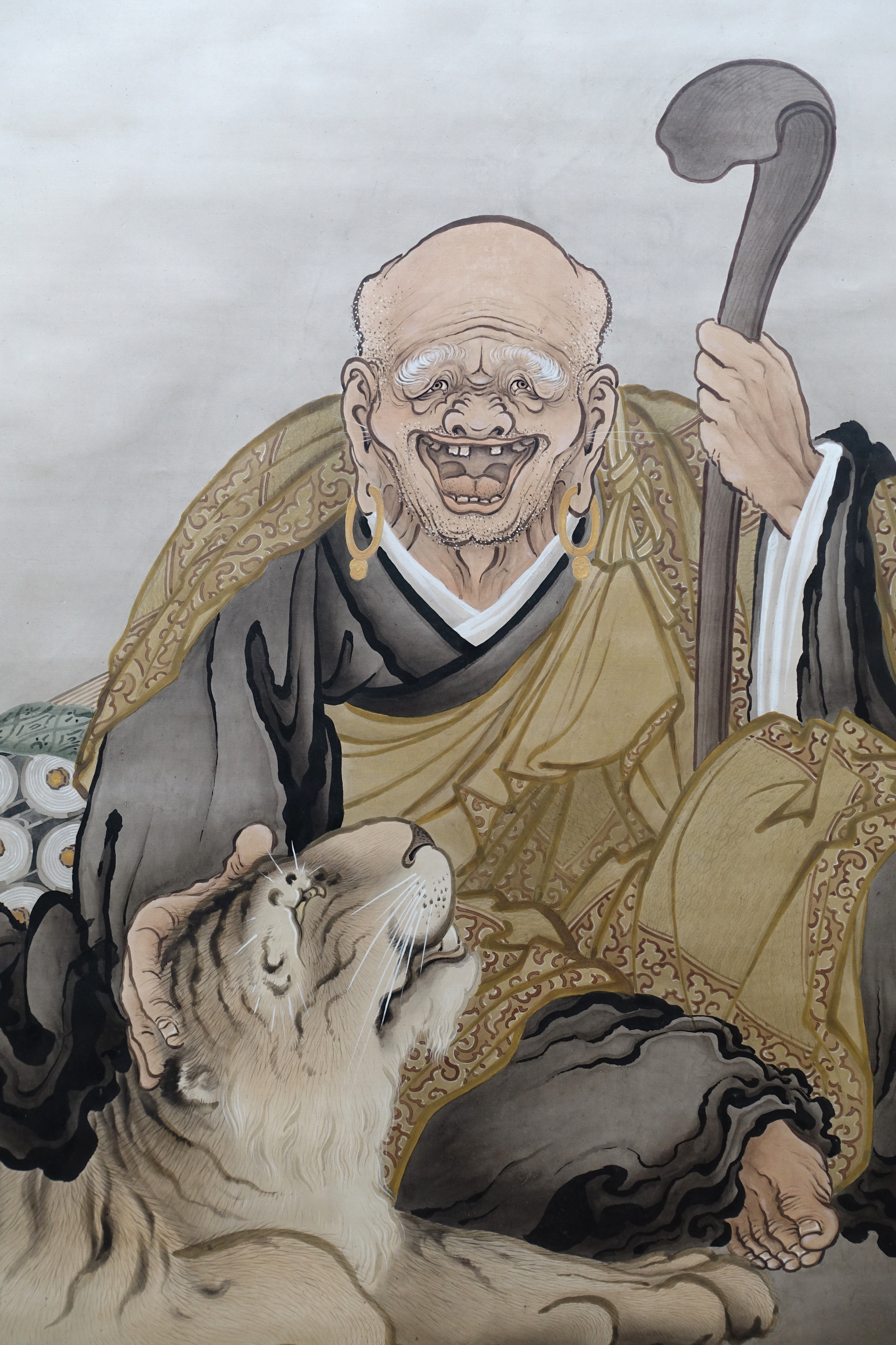 Exhibit in the Hakone Museum of Art - Hakone, Kanagawa, Japan.